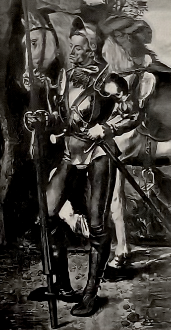 Sir Dinadan in the May 1894 issue of Catholic World.